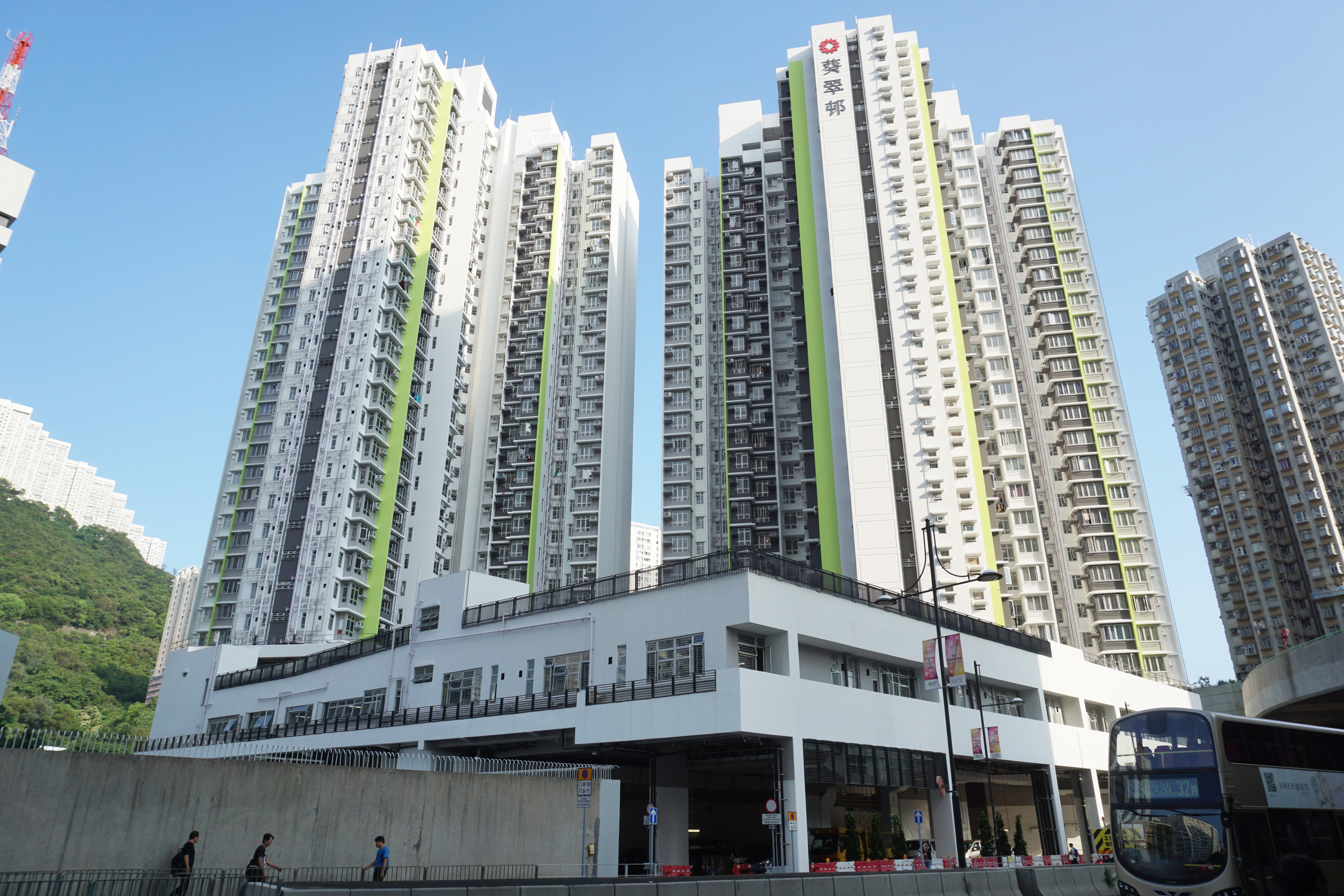 Kwai Tsui Estate in Kwai Fong, Hong Kong.